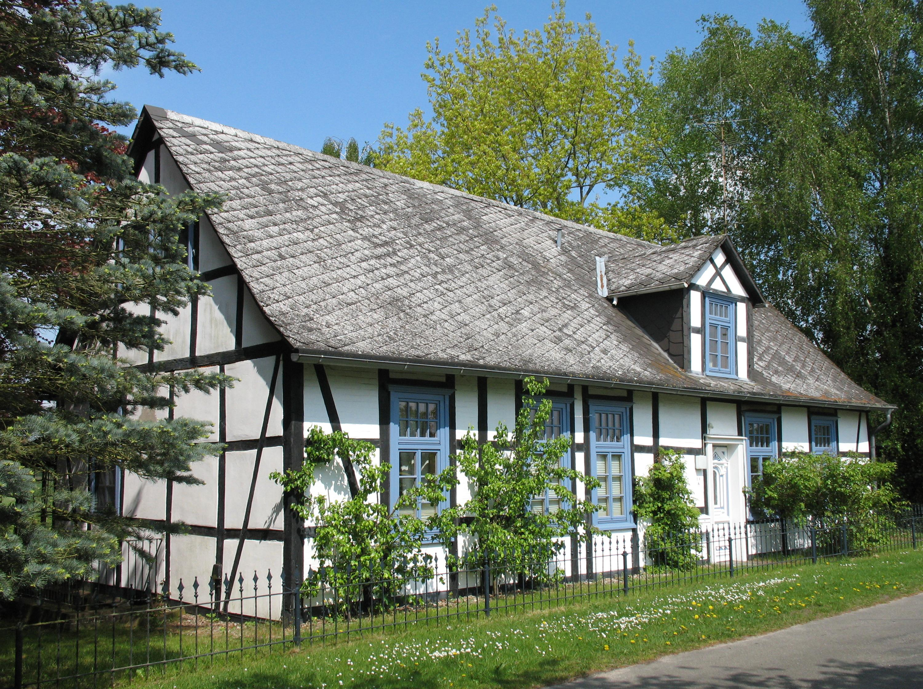 House in Schnega-Gledeberg in Lower Saxony, Germany